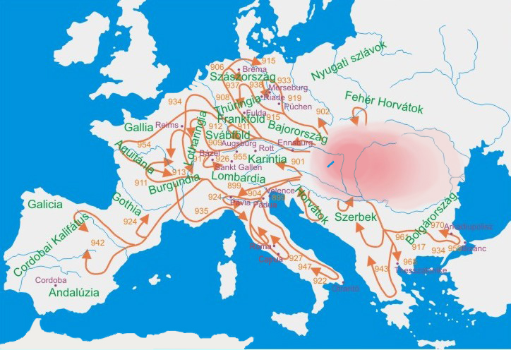 Kalandozó magyar hadjáratok Hungarian campaigns